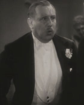 Edmund Breon in I Like Your Nerve - trailer (cropped screenshot)